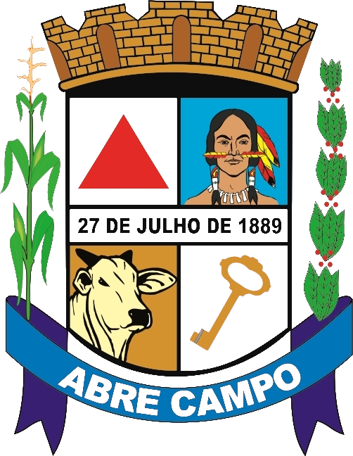 Coat of arms of Abre Campo, a municipality of the Brazilian state of Minas Gerais